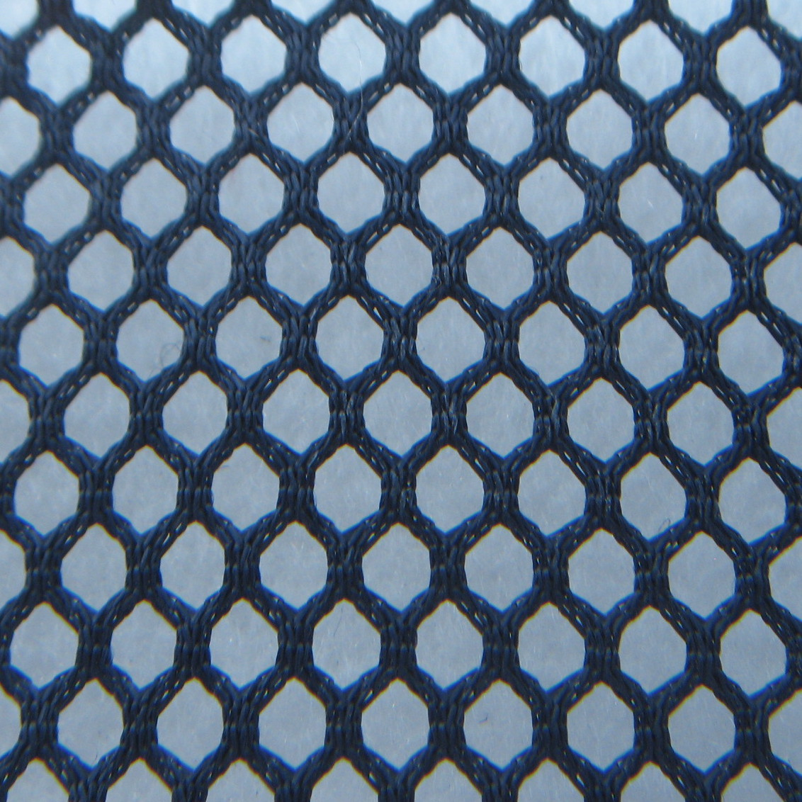 Geonet (knitted)